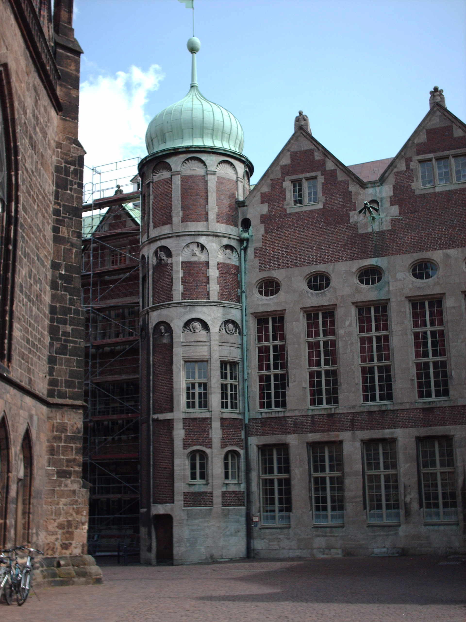 DE: (Rathaus). - EN: The town hall - Bremen City in Germany.